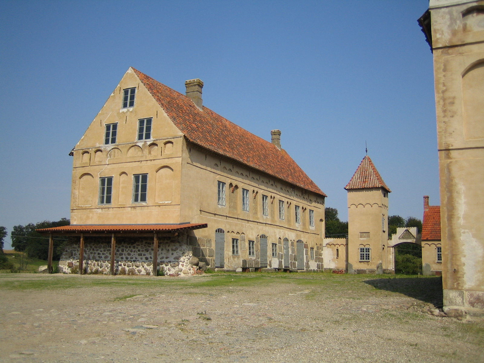 Castle Bjärsjöholm, Ystad Municipality, Sweden